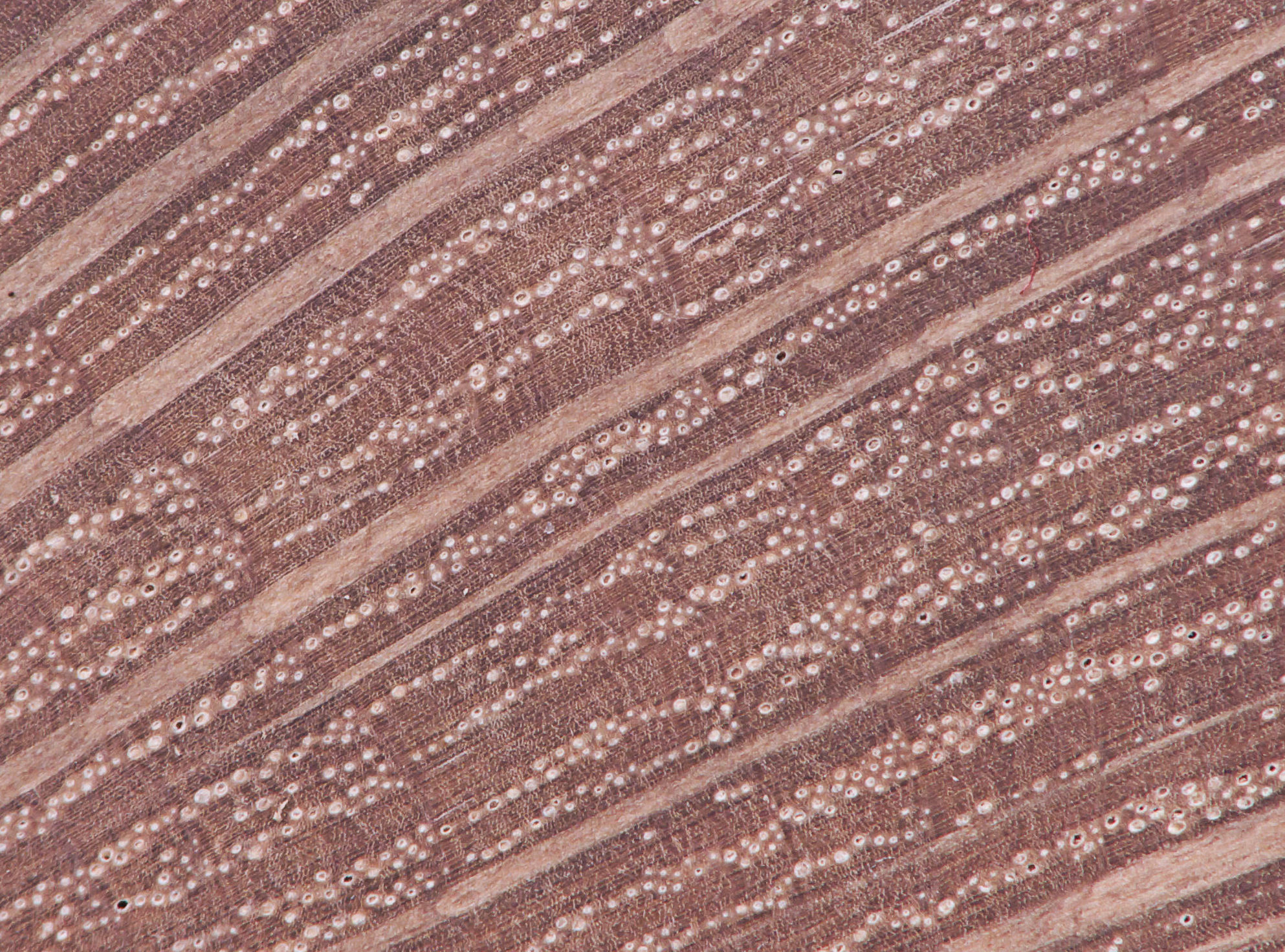 Wood of Quercus ilex, closeup